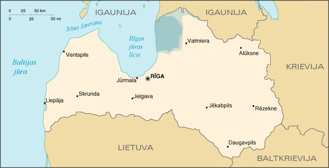 Border speculations of Livonian county Metsepole in 12-13th centuries.